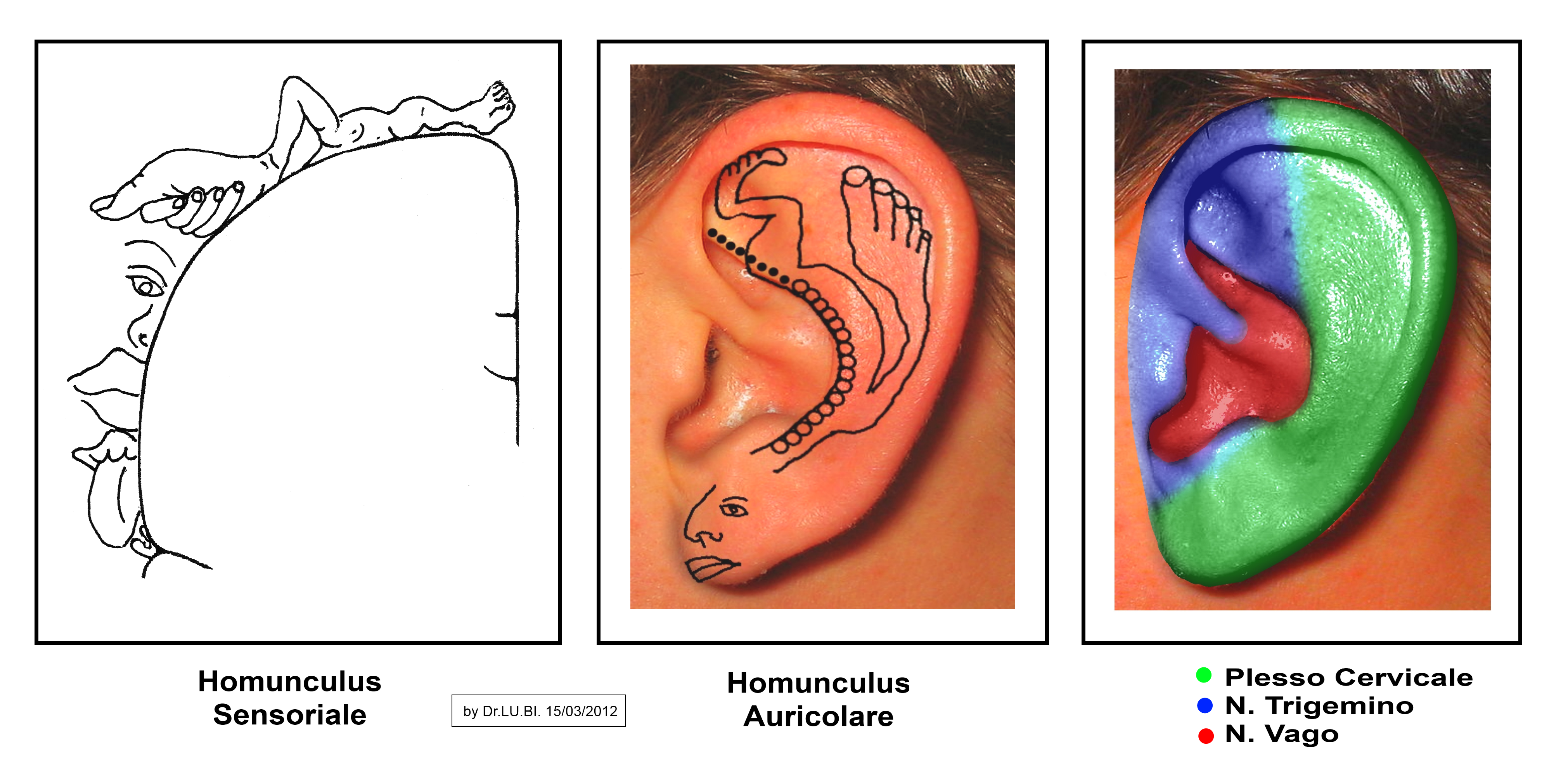 auricular homunculus and ear innervation